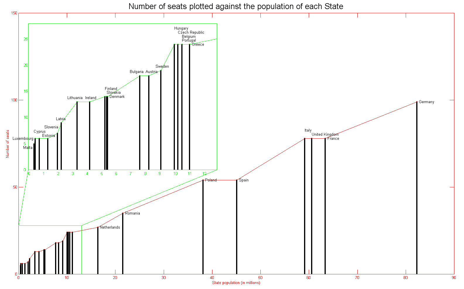 Number of seats in the European Parliament according to the Nice Treaty plotted against the population of each EU member state.